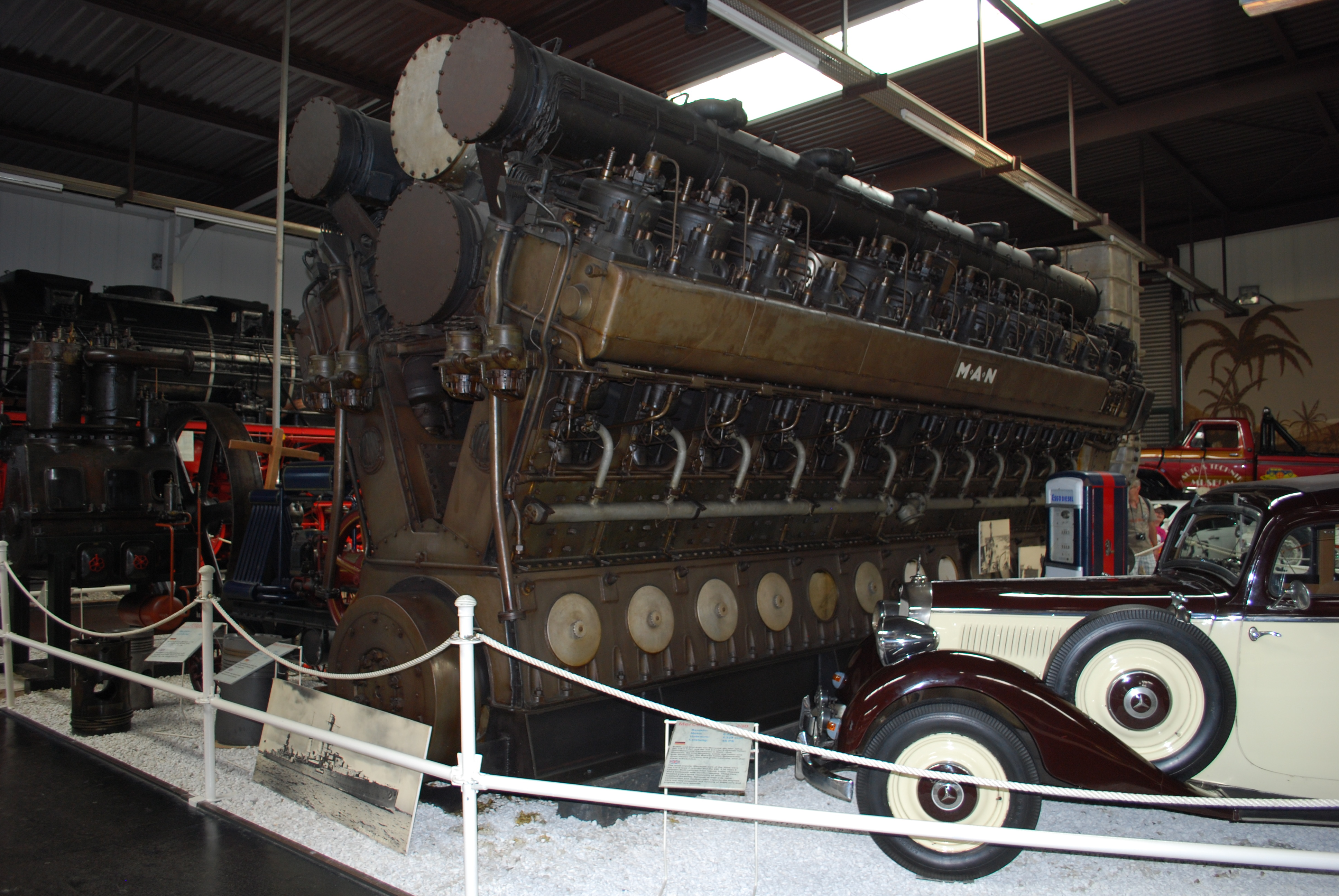 Not a car engine! - M.A.N. diesel engine intended for German light cruiser "Emden", but never installed; at the Auto & Technik Museum, Sinsheim, 06/11.